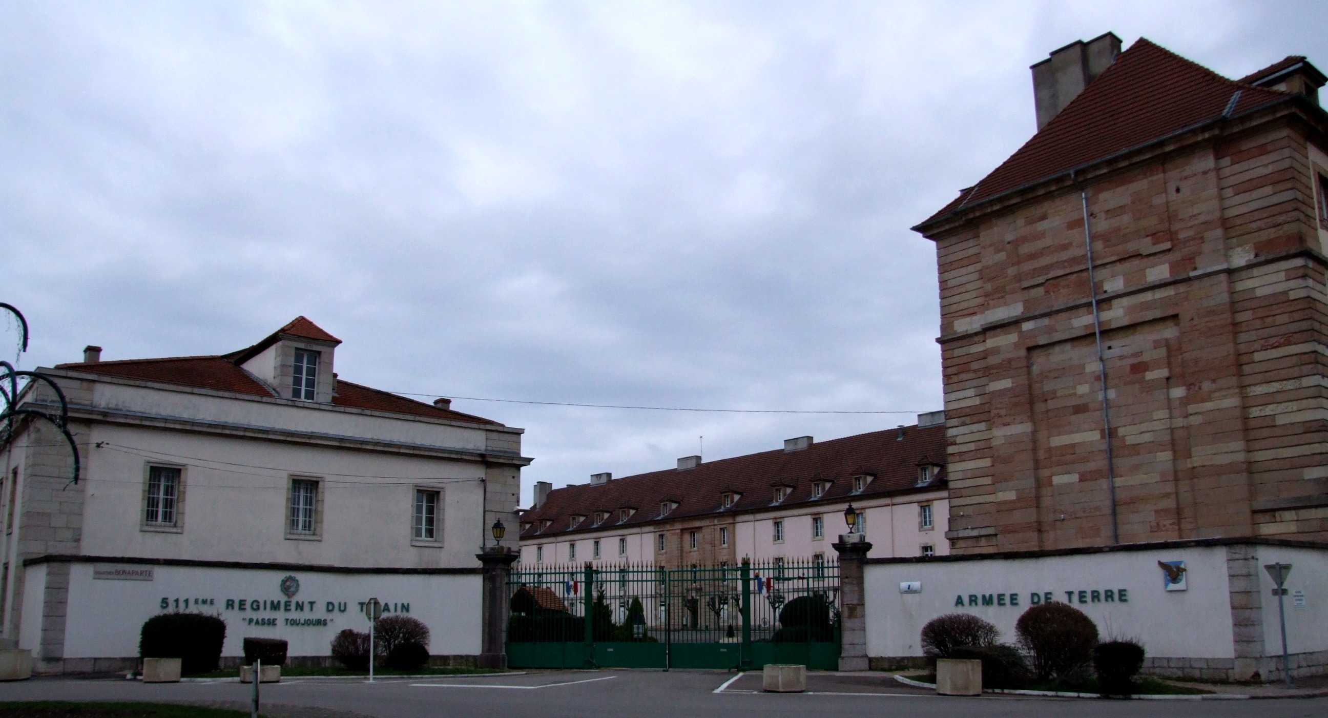 Auxonne, Burgundy, FRANCE